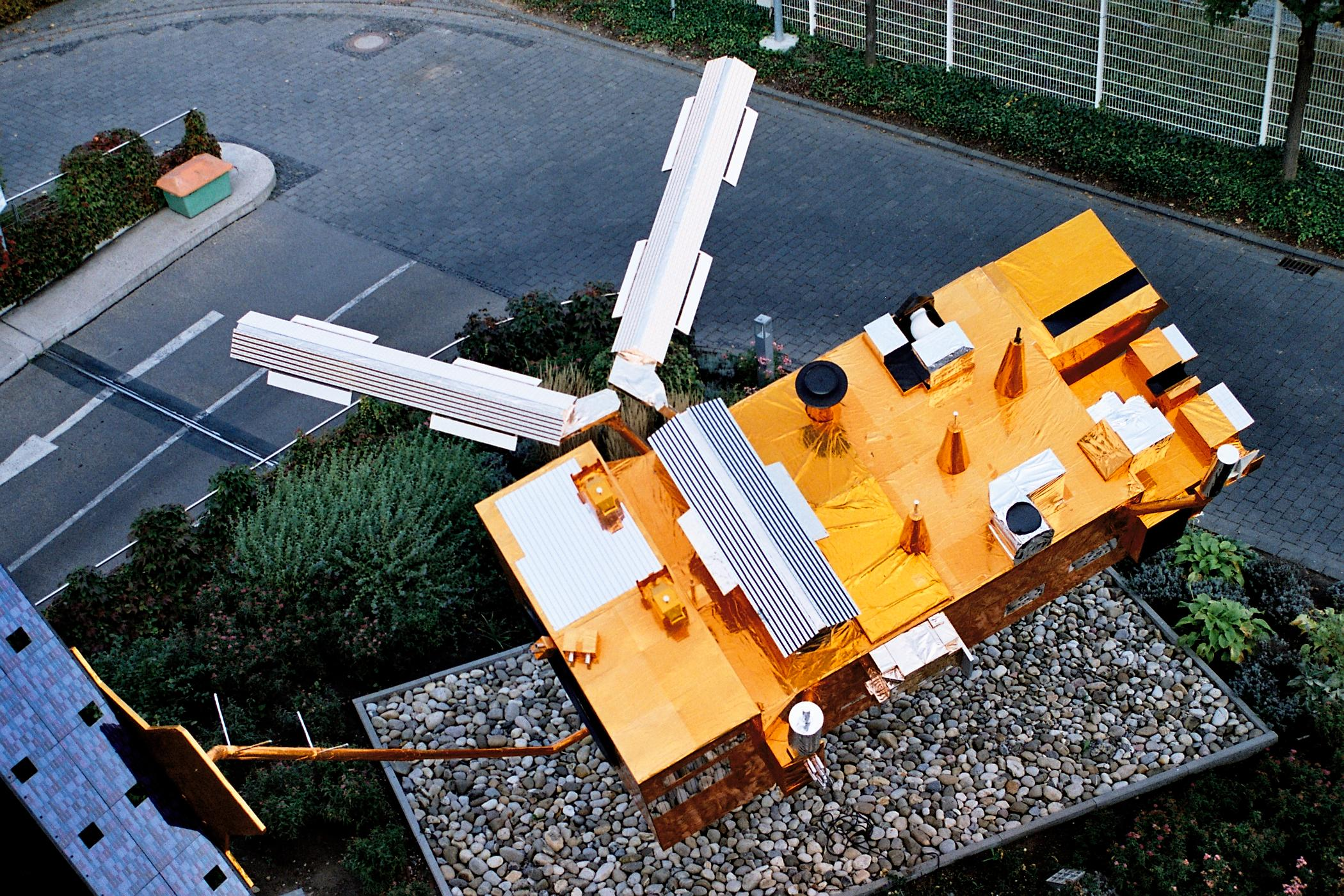 METOP model, Darmstadt, Germany, at the front of the EUMETSAT building. Taken by me, October 2006.